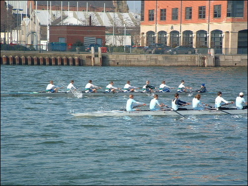 This is a photo of Queen's University B.C overtaking UCD B.C at Lagan Head of the River 2003. I took this picture myself in February 2003. There is no copyright on this photograph.